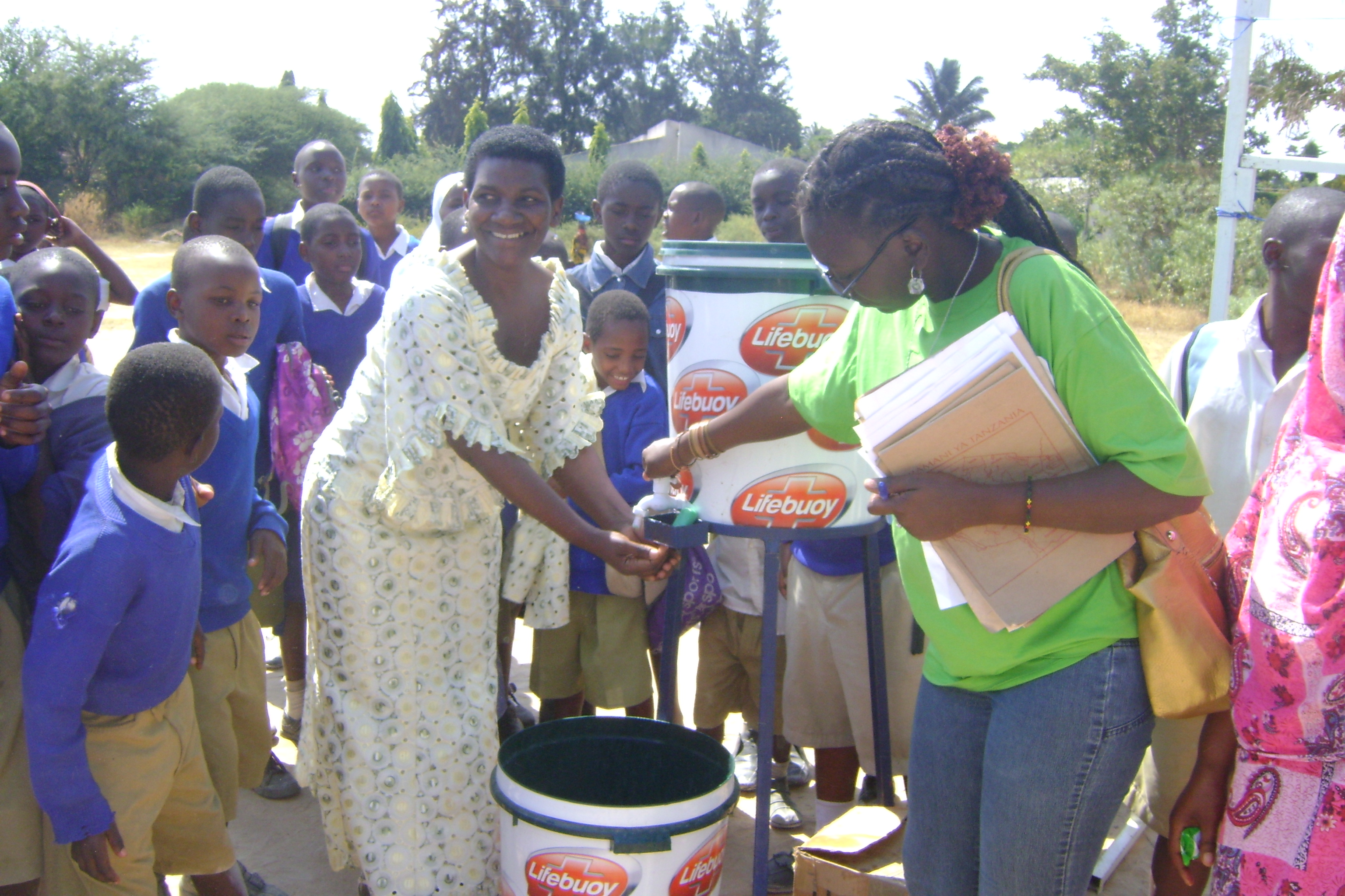 Tanzania - Sanitation activities by GIZ